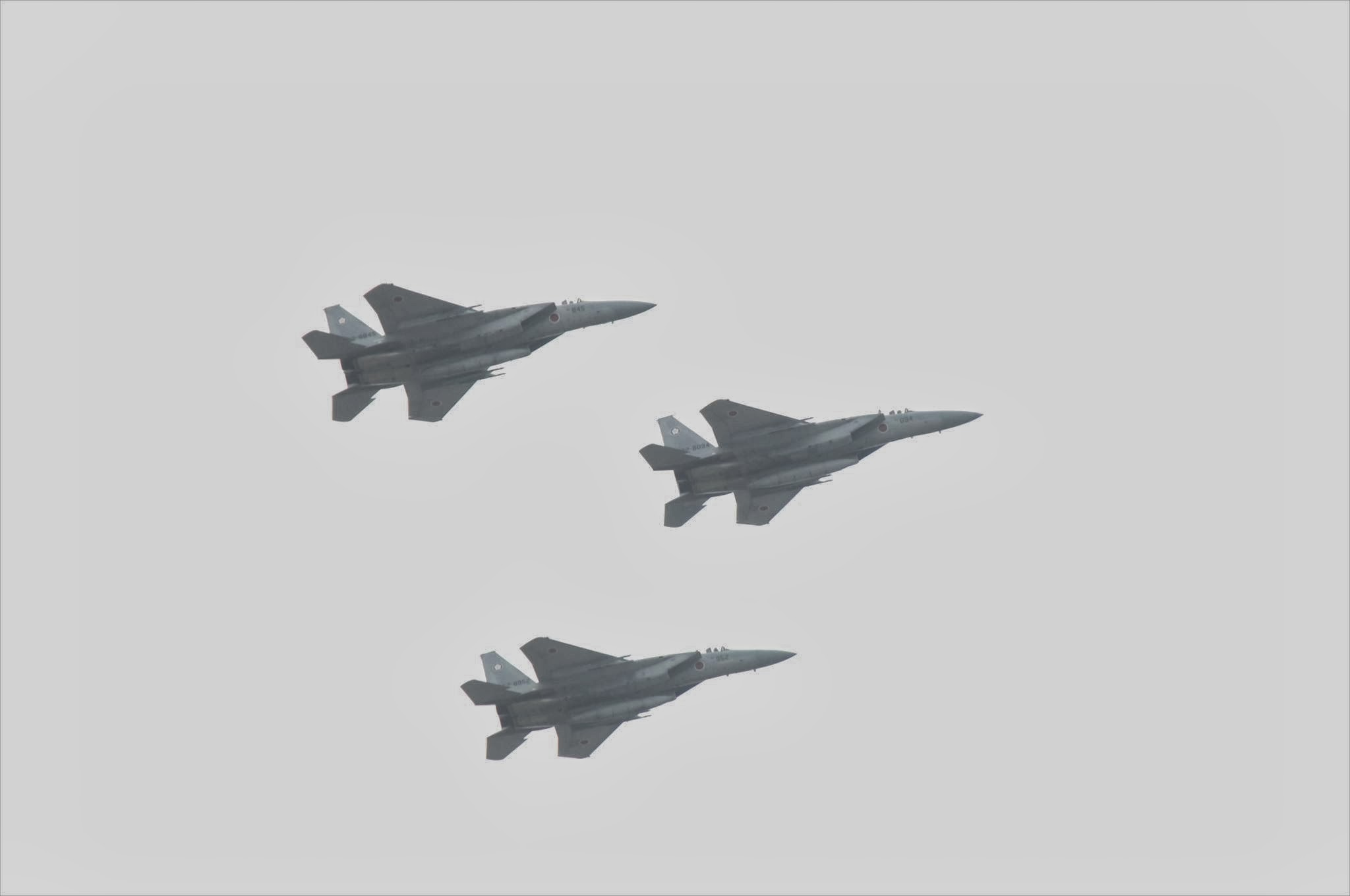 Title 12_15_005_R.JPG Album 自衛隊記念日 観閲式(Parade of Self-Defense Force) 平成22年度自衛隊記念日 観閲式(Parade of Self-Defense Force)